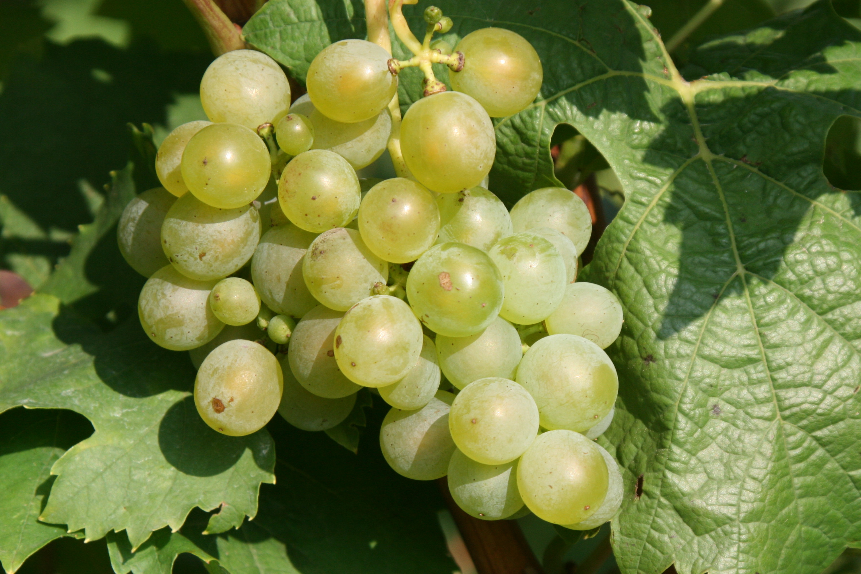 Grapes and leaves of the grape variety Müller-Thurgau, photographed at the viticulture trail on the Schemelsberg hill in Weinsberg